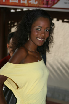 Miss Martinique 2007 - Vanessa Beauchaints in Miss World 2007, Sanya, China